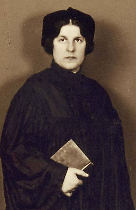 Depicted person: Regina Jonas – rabbi